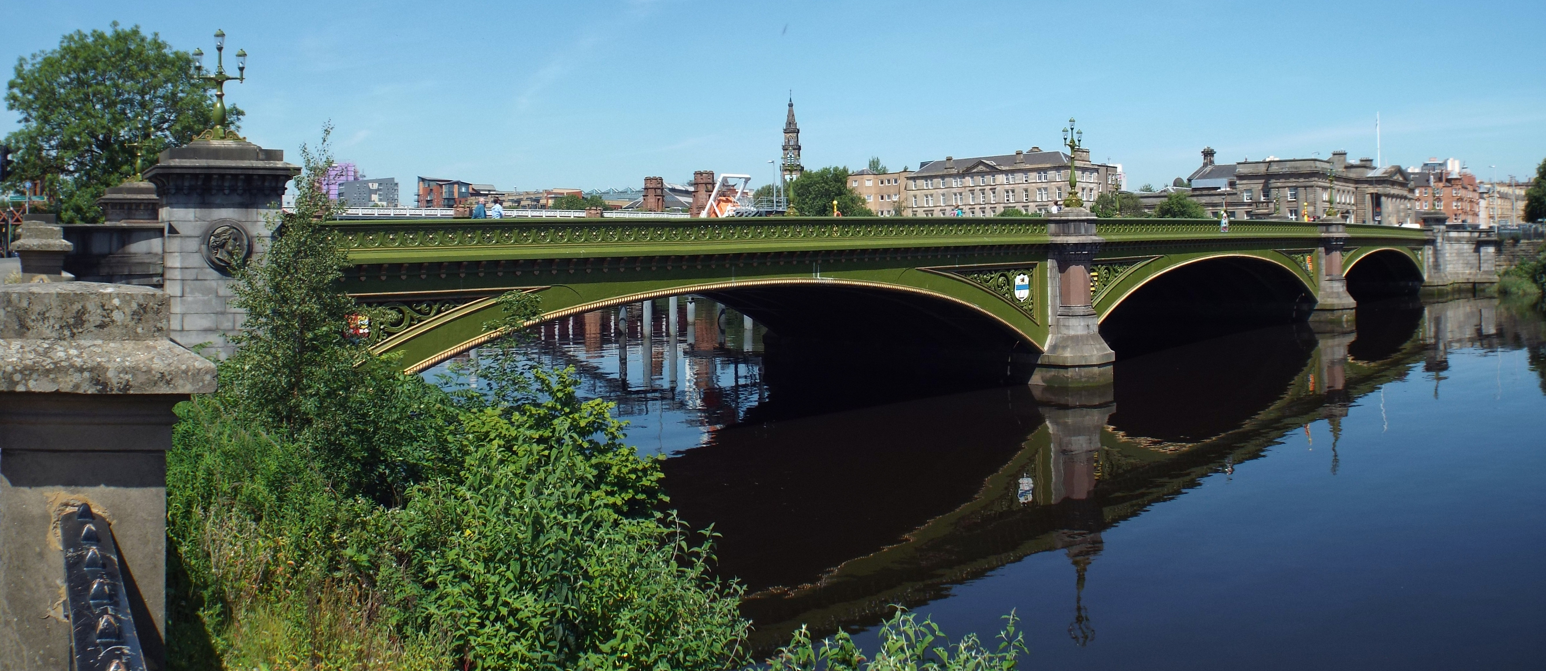 Albert Bridge, Glasgow viewed from the southern bank and east of the bridge. Composite panorama of File:Albert Bridge, Glasgow, northern part viewed from the south-east, 2018-06-27.jpg and File:Albert Bridge, Glasgow, southern part viewed from the south-east, 2018-06-27.jpg